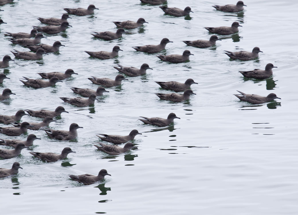 Many Sooty Shearwaters near Avila Beach, California, USA.